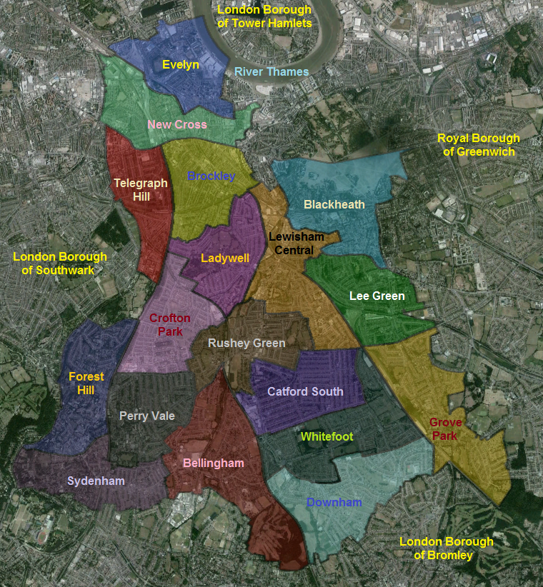 A map of the wards within the London Borough of Lewisham. Created by me using a Google mapping software and saved as a .kml file